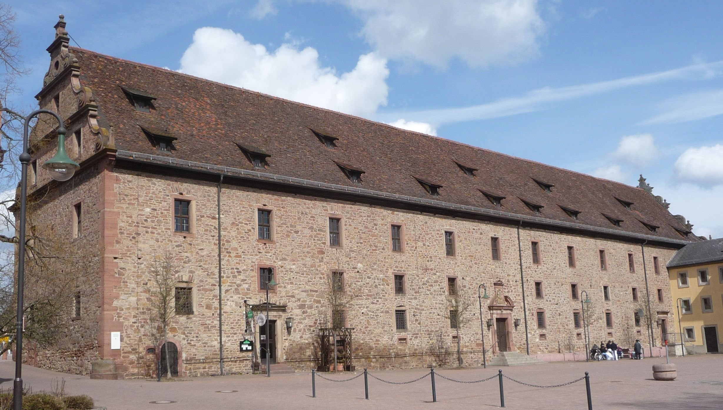 Hardheim